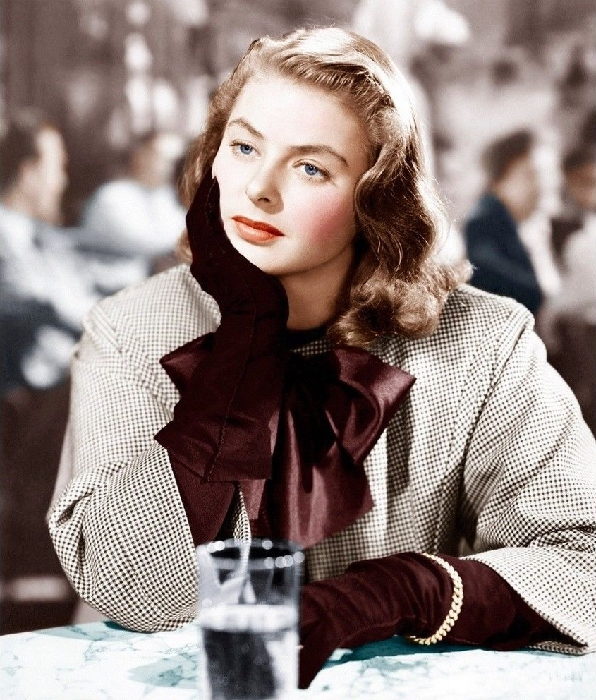 Publicity Photo of Ingrid Bergman from the 1946 film Notorious